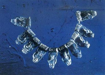 Mycenaean jewelry, 1500 BC